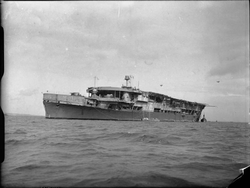 The Royal Navy during the Second World War The British aircraft carrier HMS FURIOUS on the Firth of Forth (photographed from the destroyer HMS JAVELIN).